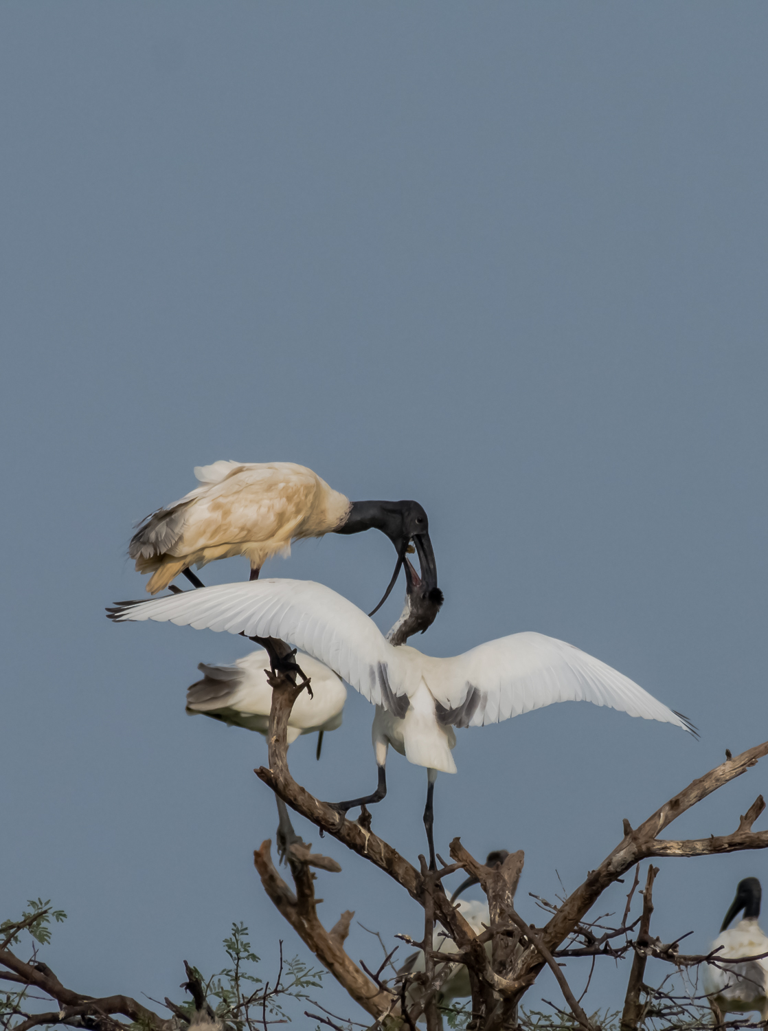 ibis chick feeding